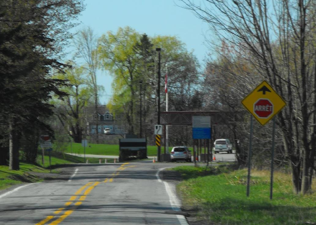 US-Canada Joint Border Inspection Station between Alburgh Vermont and Noyan Quebec